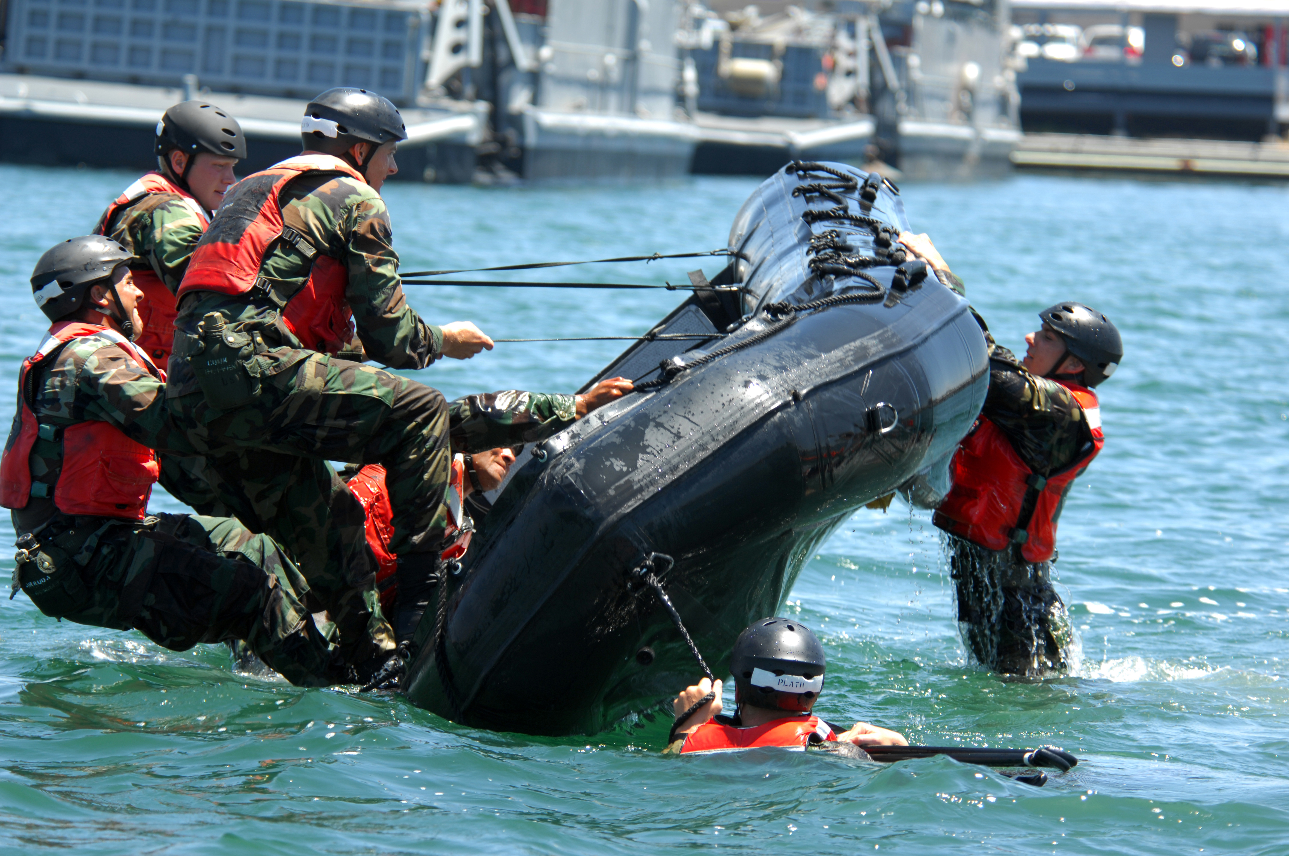 CORONADO, Calif. (July 23, 2008) Basic Crewman Training (BCT) students perform a "dump boat" exercise with the combat rubber raiding craft (CRRC) at Naval Amphibious Base, Coronado. This was the students' first underway using CRRC during their BCT training. BCT is the first phase of the special warfare combatant-craft crewman (SWCC) training pipeline. SWCCs operate and maintain the Navy's inventory of state-of-the-art, high-performance boats used to support SEALs in special operations missions worldwide. (U.S. Navy photo by Mass Communication Specialist 2nd Class Dominique M. Lasco/Released)